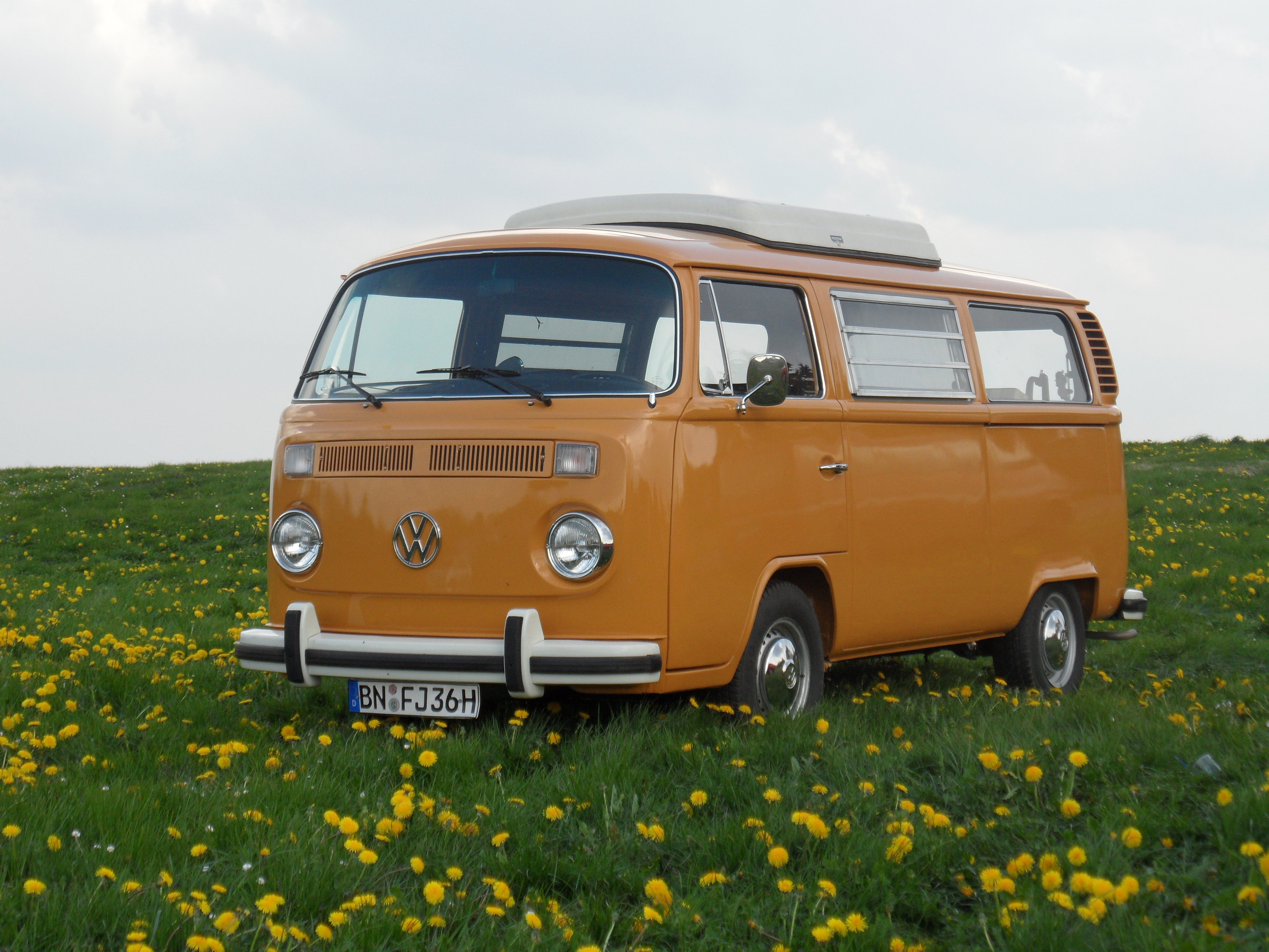 VW T2 "camper", nurburgring